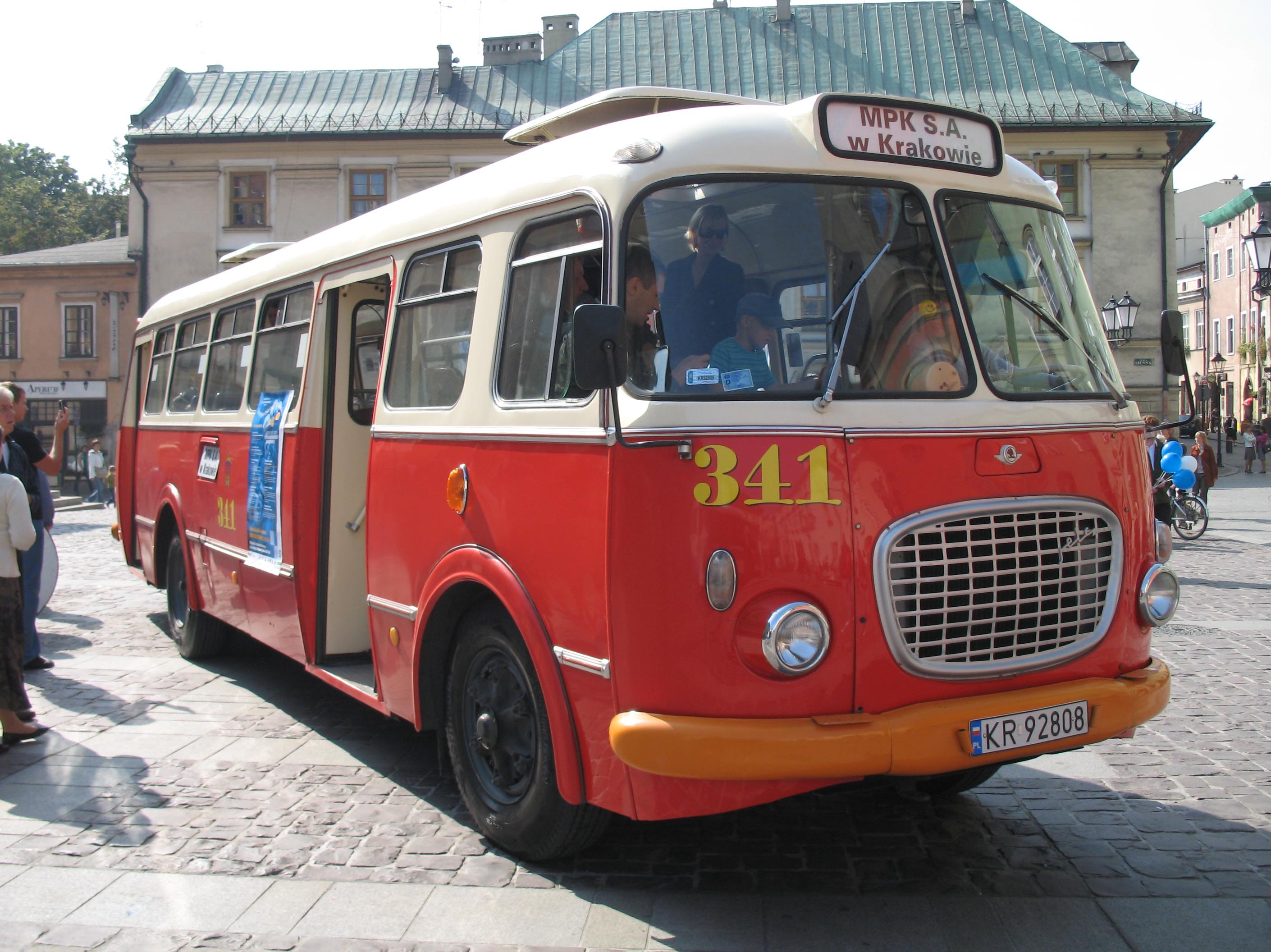 Jelcz 272 MEX bus (#341) in Kraków, Poland. Built 1971 (Jelcz 043), rebuilt 2002, MPK Kraków operator.